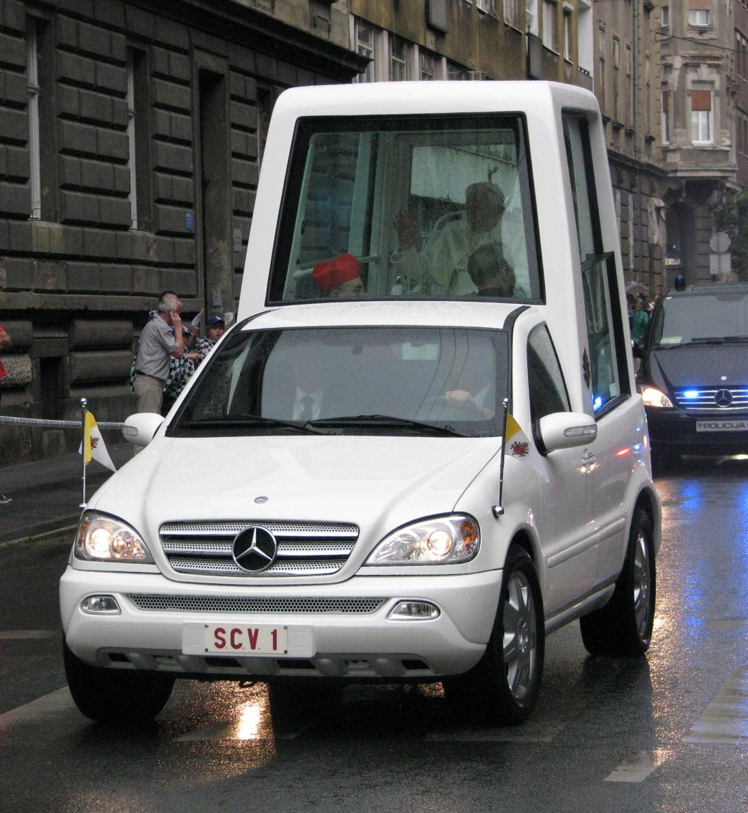 Pope Benedict XVI in Zagreb